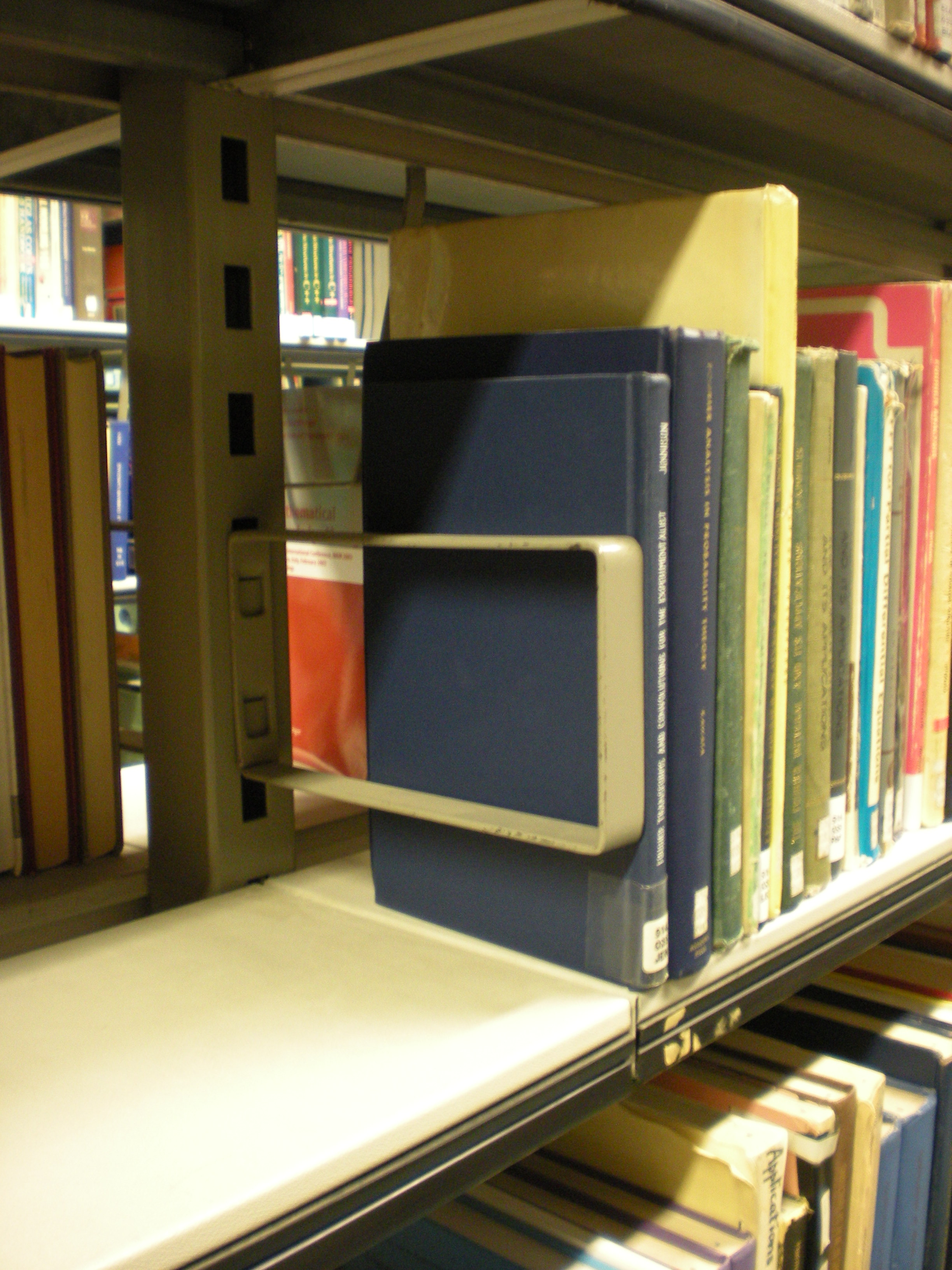 Bookend